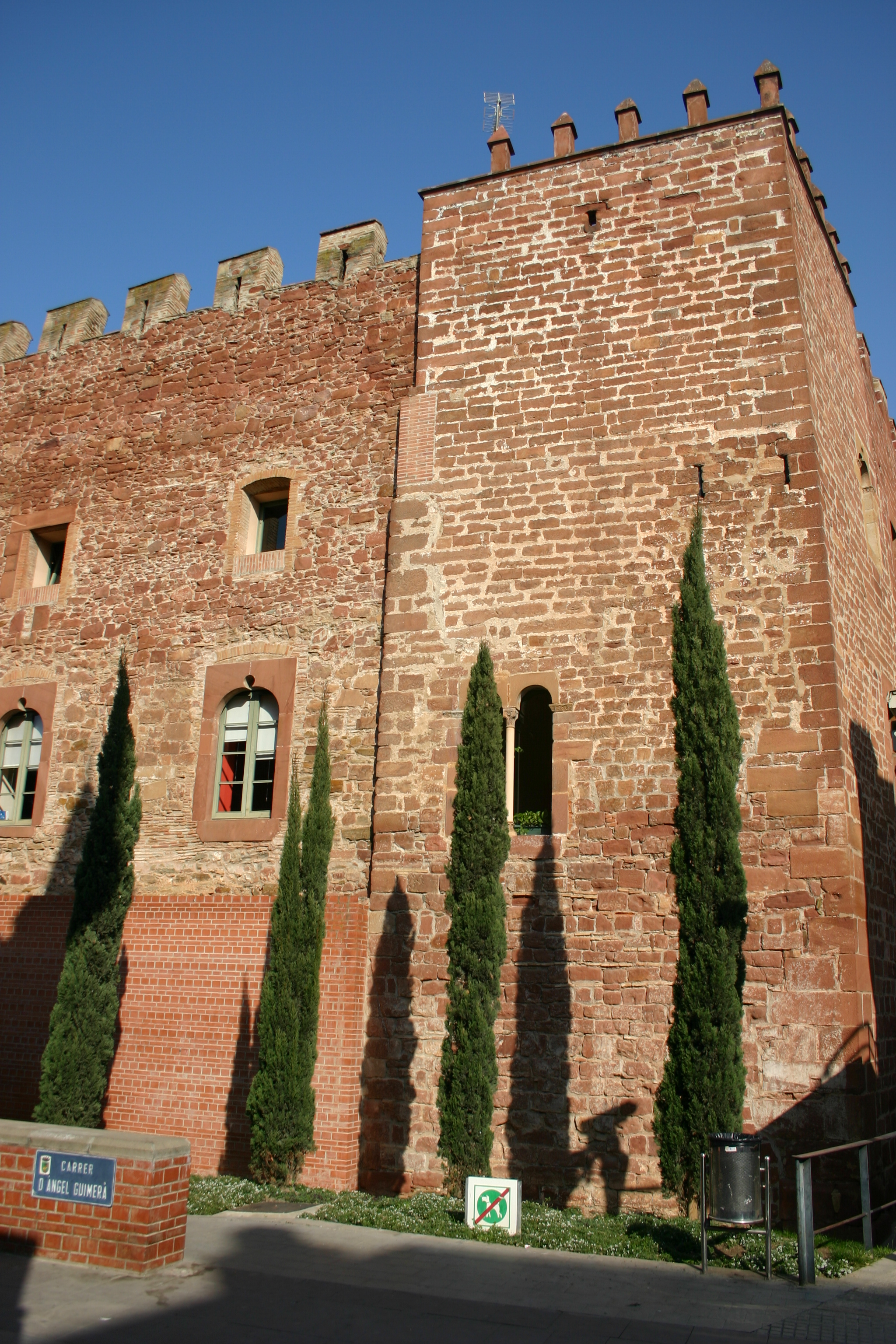 Torre del Baró City: Viladecans Comments: By/Por: Yearofthedragon